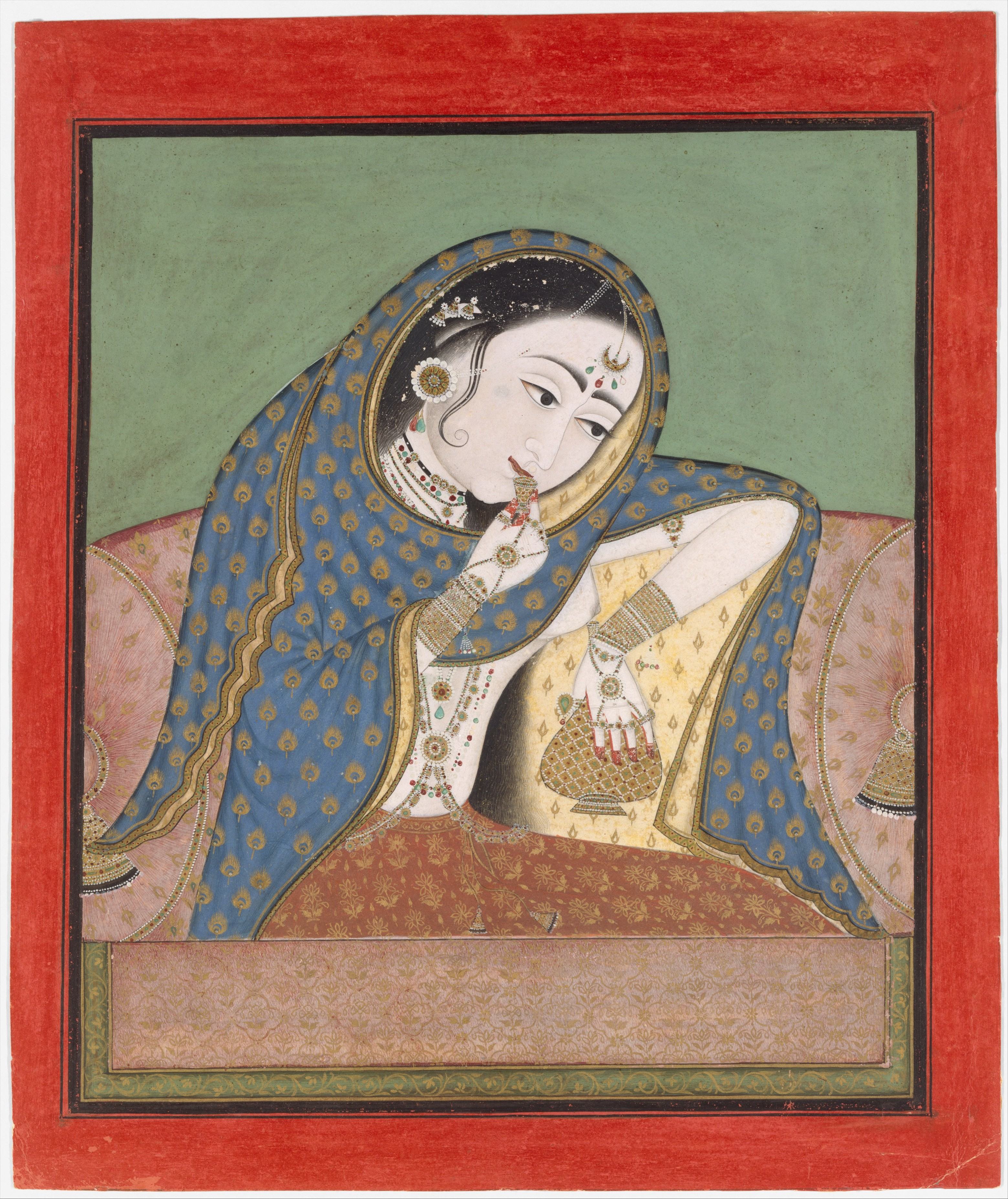 Melancholy Courtesan. Bundi or Kota, 1610, Metropolitan museum